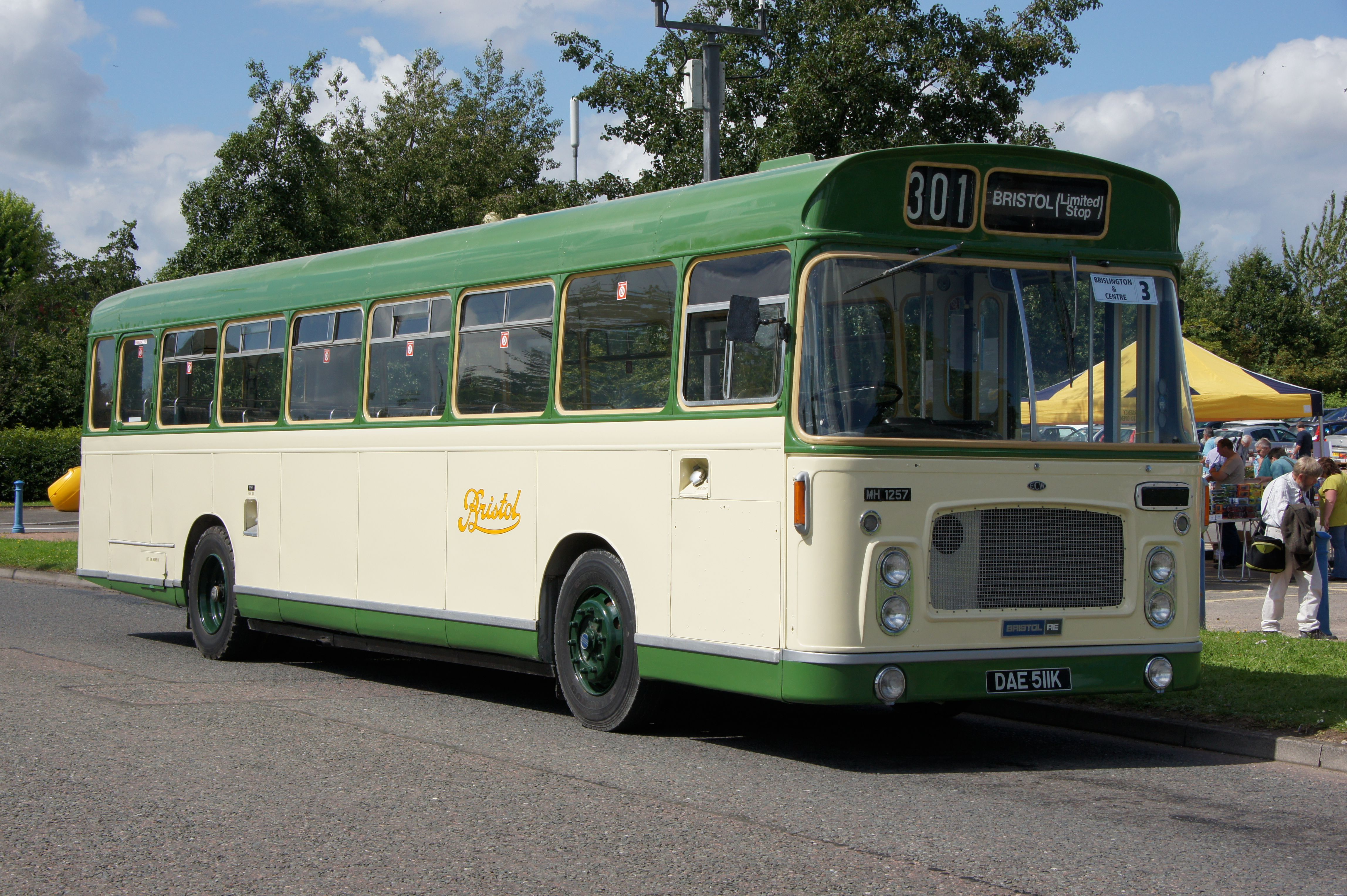 1257-DAE511K-2 140811 CPS